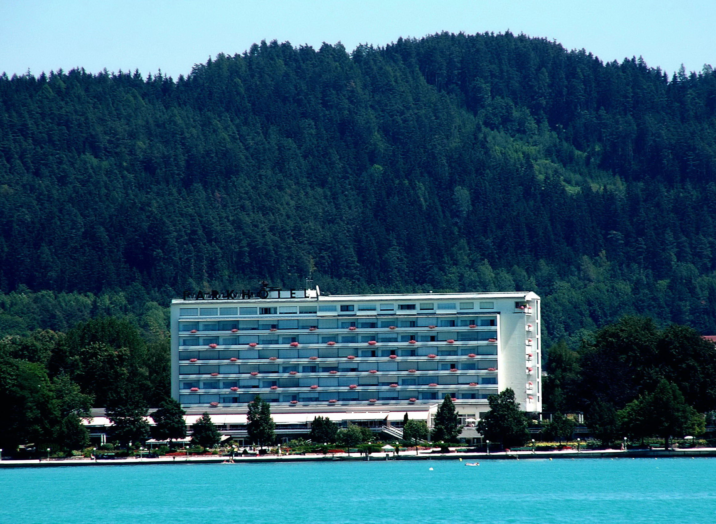 Parkhotel in Poertschach on the Lake Woerth, Carinthia, Austria